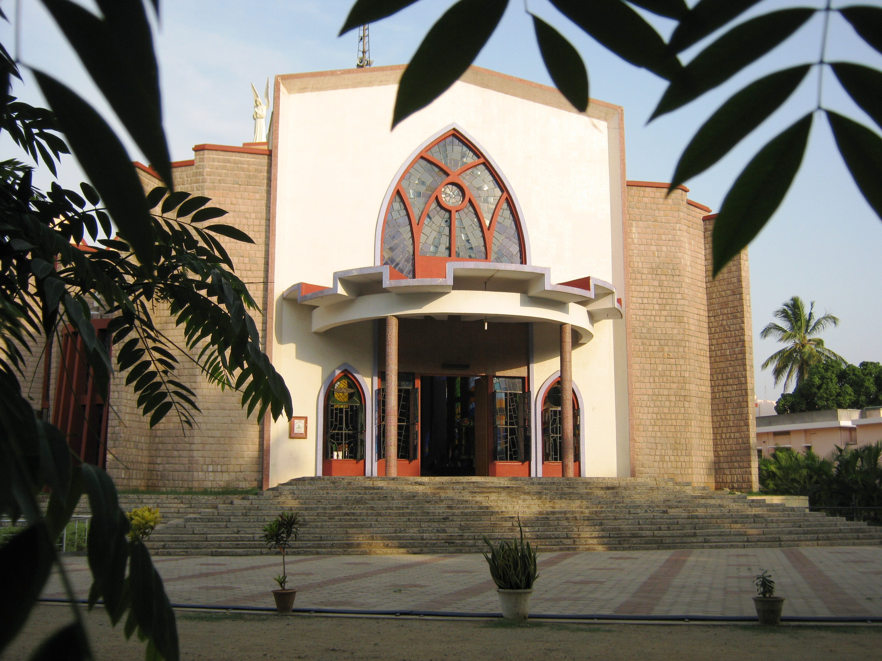 INFANT JESUS CATHEDRAL, SALEM